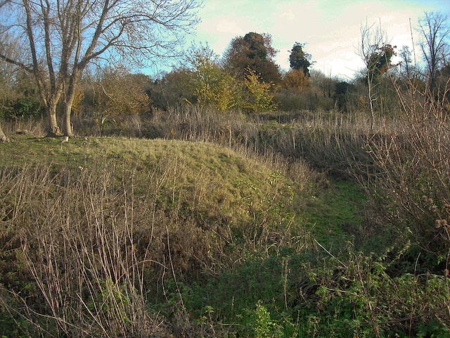 Moat in Fulbourn Fen An old earthworks, the only remaining sign of Zouches Castle, an ancient manor house.